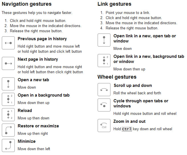 mouse gesture opera browser